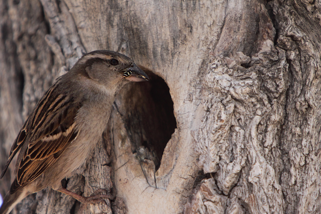 A pair of house sparrows nested inside a tree hole near Mojave, California, USA. While the male keeps guard (not seen in the photograph) and fights of a pesky Scrub Jay, the female flies frequently in to the hole to feed her young. For this photograph the camera was set up and fired remotely as the bird landed on the hole in the tree. The photographer was hiding behind a wall.